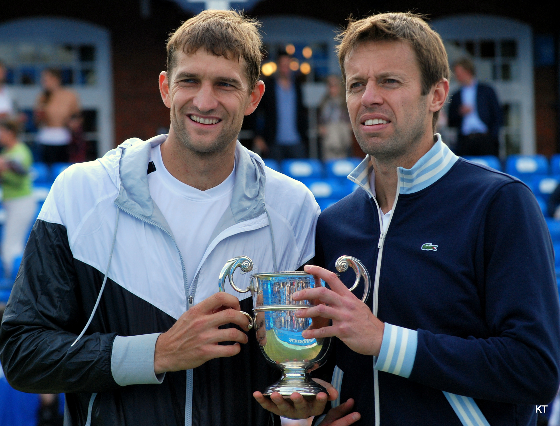 Max Mirnyi and Daniel Nestor, Aegon Championships Doubles winners.